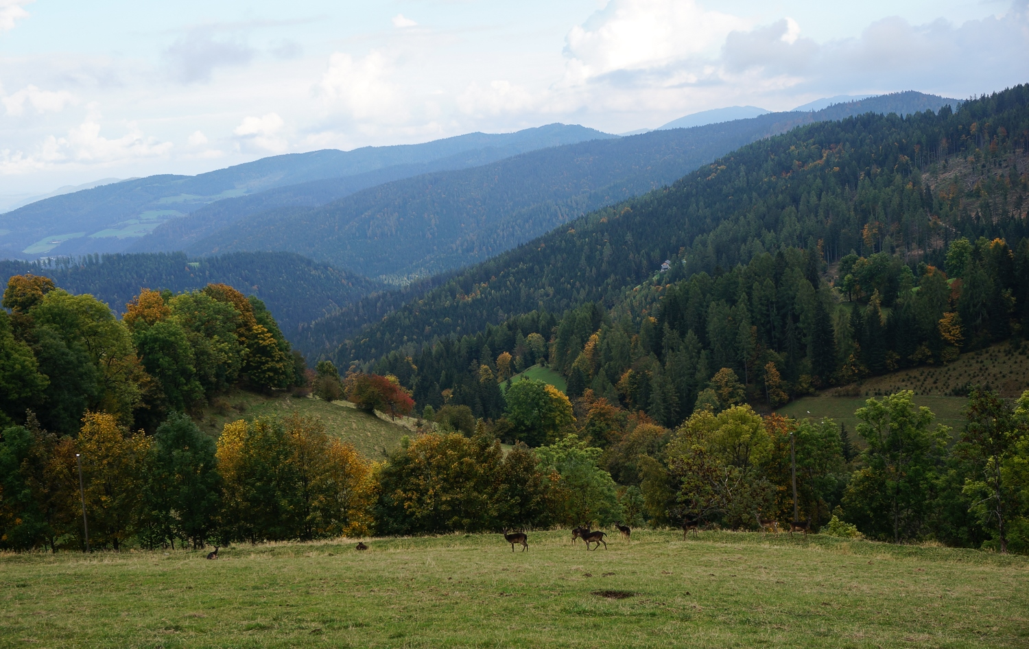 Panorama Gurktaler Alps, about 950m above sea level, district Feldkirchen in Carinthia.